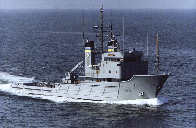 United States Navy Military Sealift Command fleet ocean tug USNS Navajo (T-ATF-169)